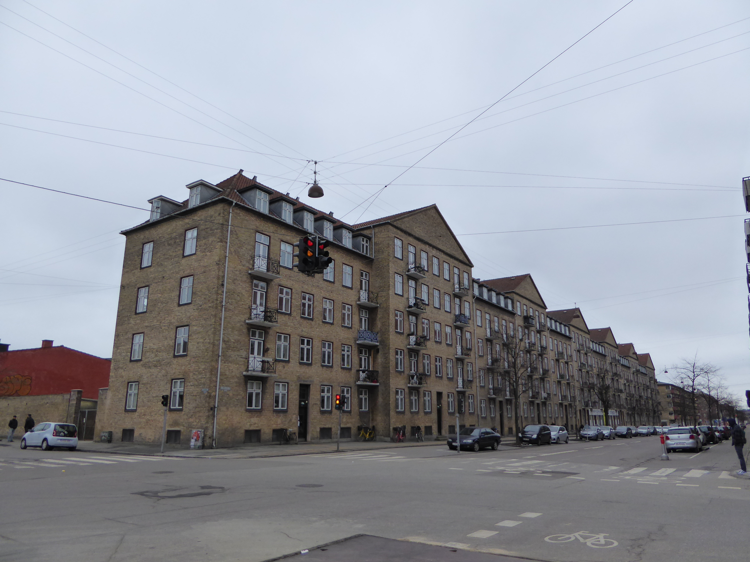 The housing cooperative A/B Haraldshus at Haraldsgade in Nørrebro in Copenhagen.